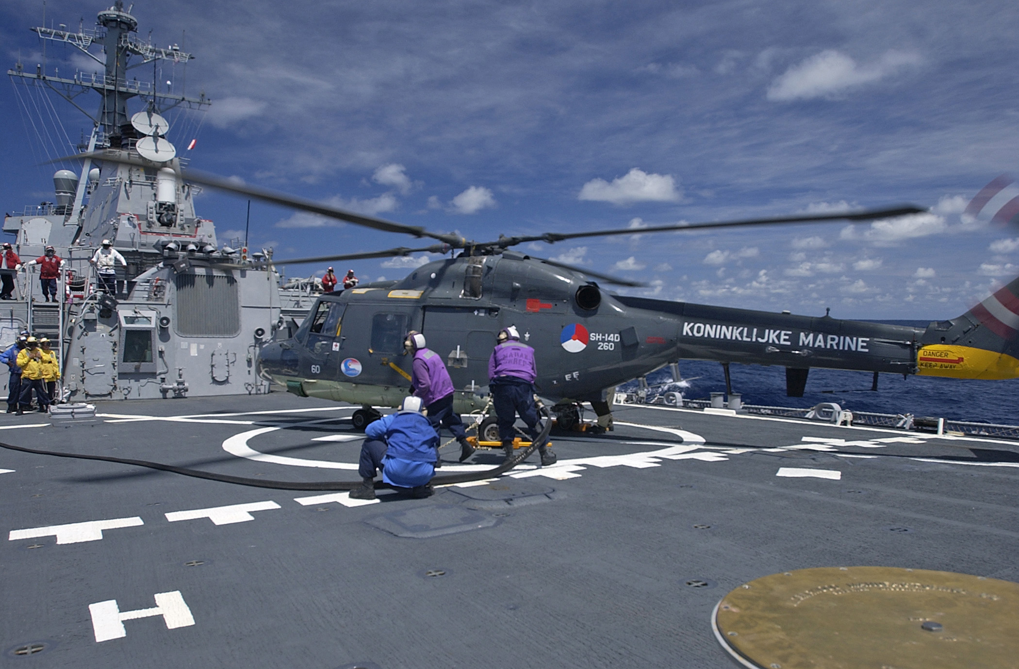 U.S. Navy Sailors assigned to the guided-missile destroyer USS Mahan (DDG-72) approach a Dutch navy (Koninklijke Marine) Westland Lynx Mk.25 helicopter to refuel it during a deck landing qualification in the Caribbean on 4 April 2007. The flight deck crew practiced safety procedures and hand signals during the qualification.